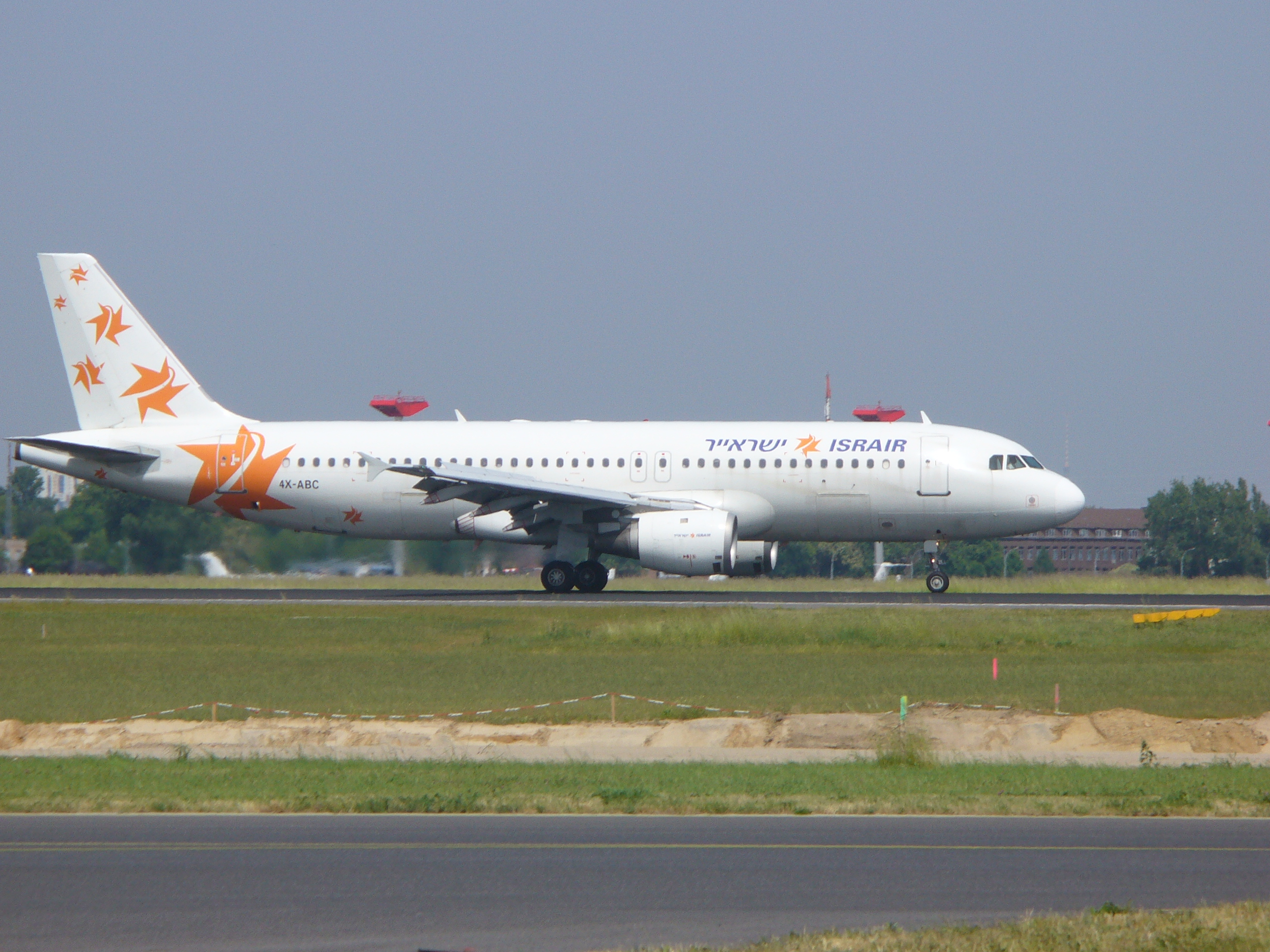 Israir Airbus A320-200 4X-ABC at Berlin-Schönefeld Airport